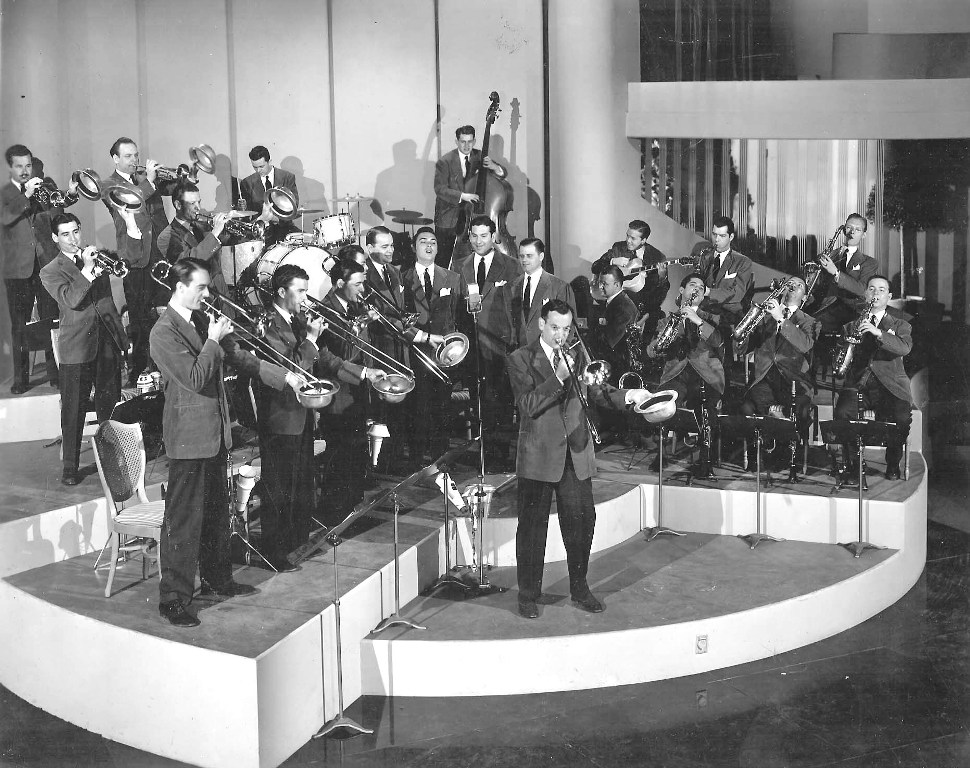 Glenn Miller Orchestra, 1940-41 From Ray Anthony's website (who is still alive!)